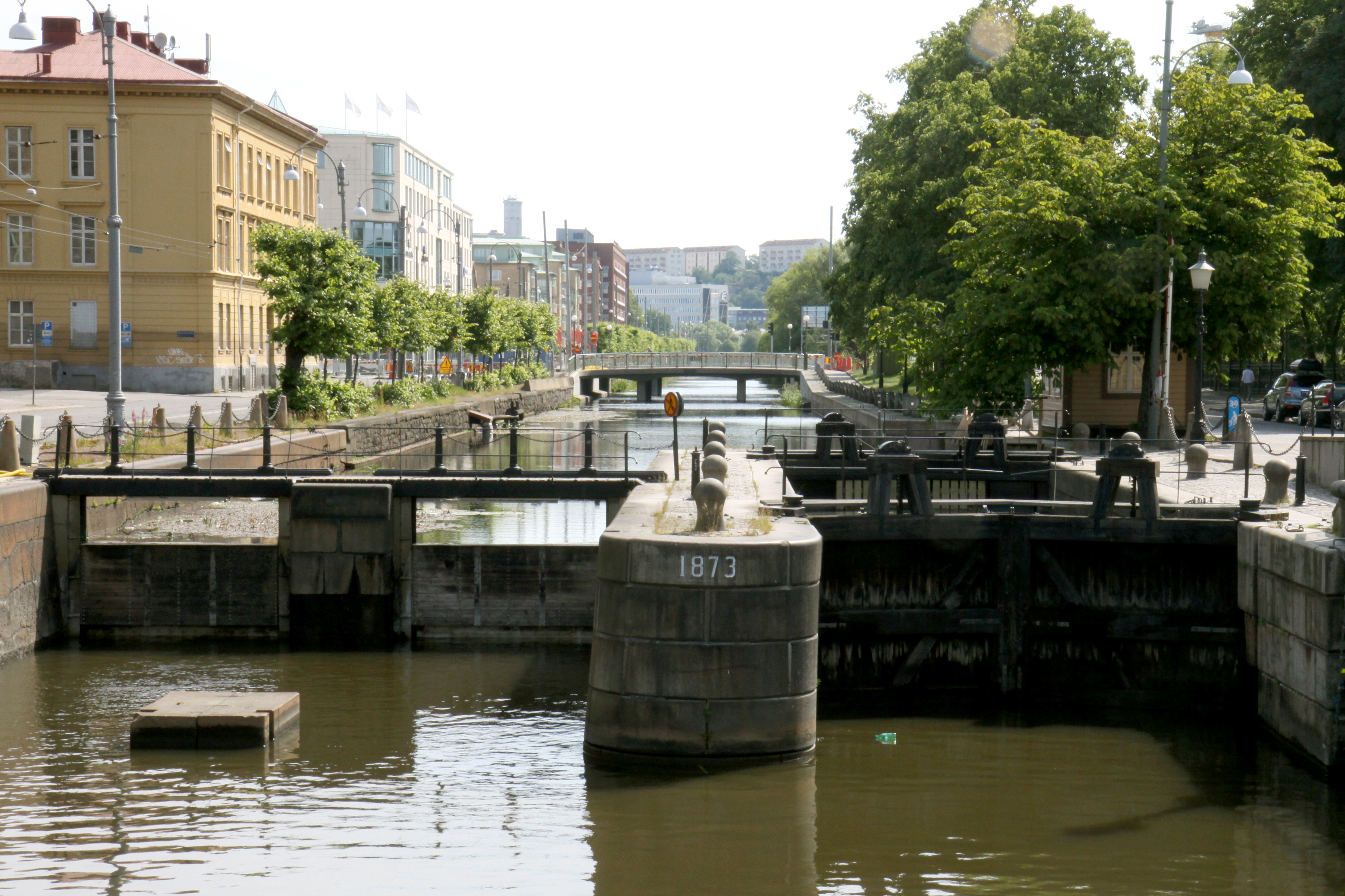 The lock between Fattighusån and Mölndalsån next to Drottningtorget/Central station in Gothenburg, Sweden